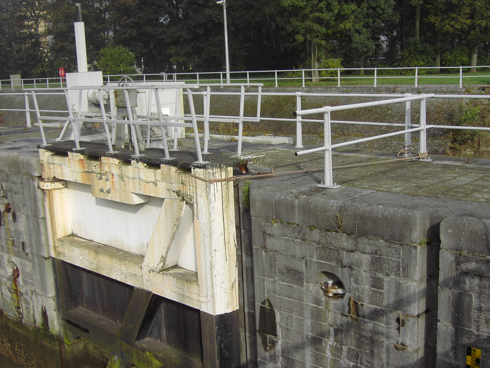 A opened and fixed wing of the upper ebbdoors of the pound lock